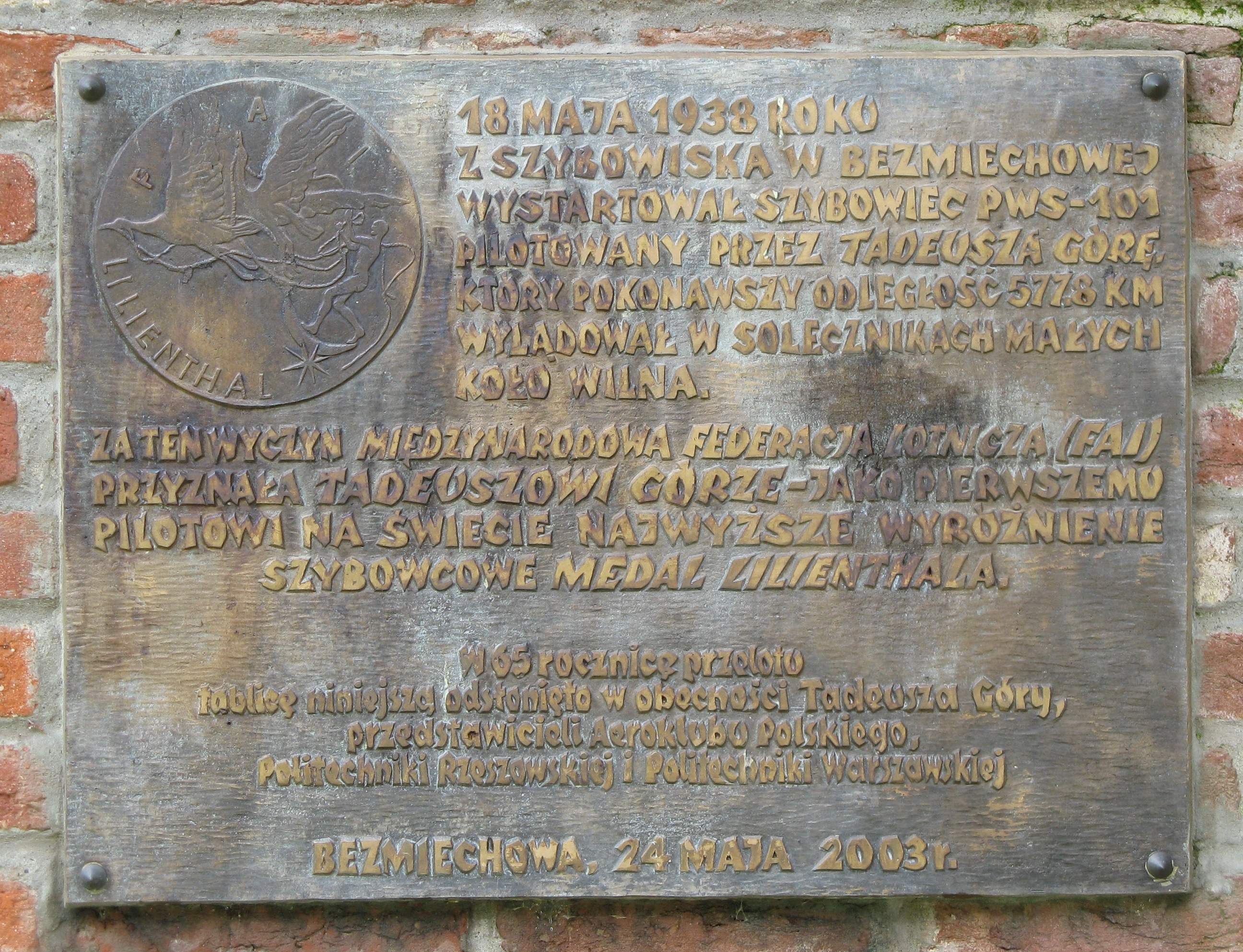 Memorial plaque at glider field in Bezmiechowa Górna dedicated to Tadeusz Góra's record flight in 1938.